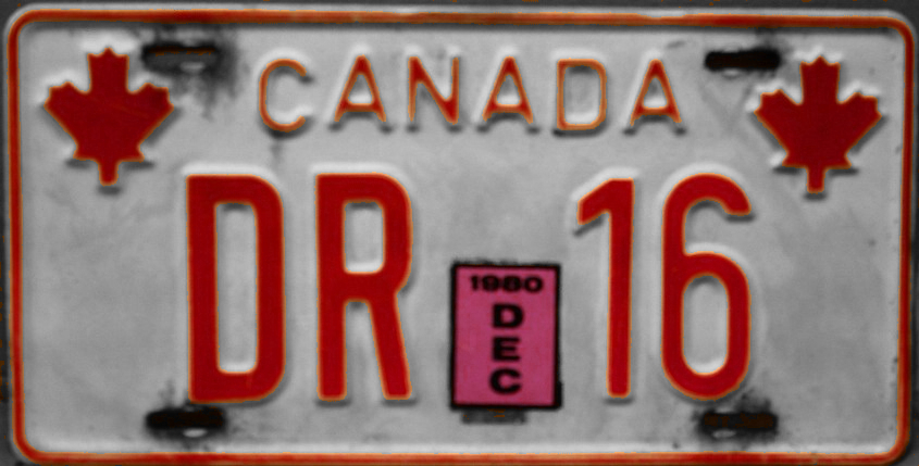 Description (en): Canadian License Plate for the privately owned motor vehicle (POMV) of a DND servicemember posted in Germany Description (de): PKW-Nummernschild für den Privatwagen eines in Deutschland stationierten kanadischen Militärangehörigen Source: Photographed by myself on 16SEP2005